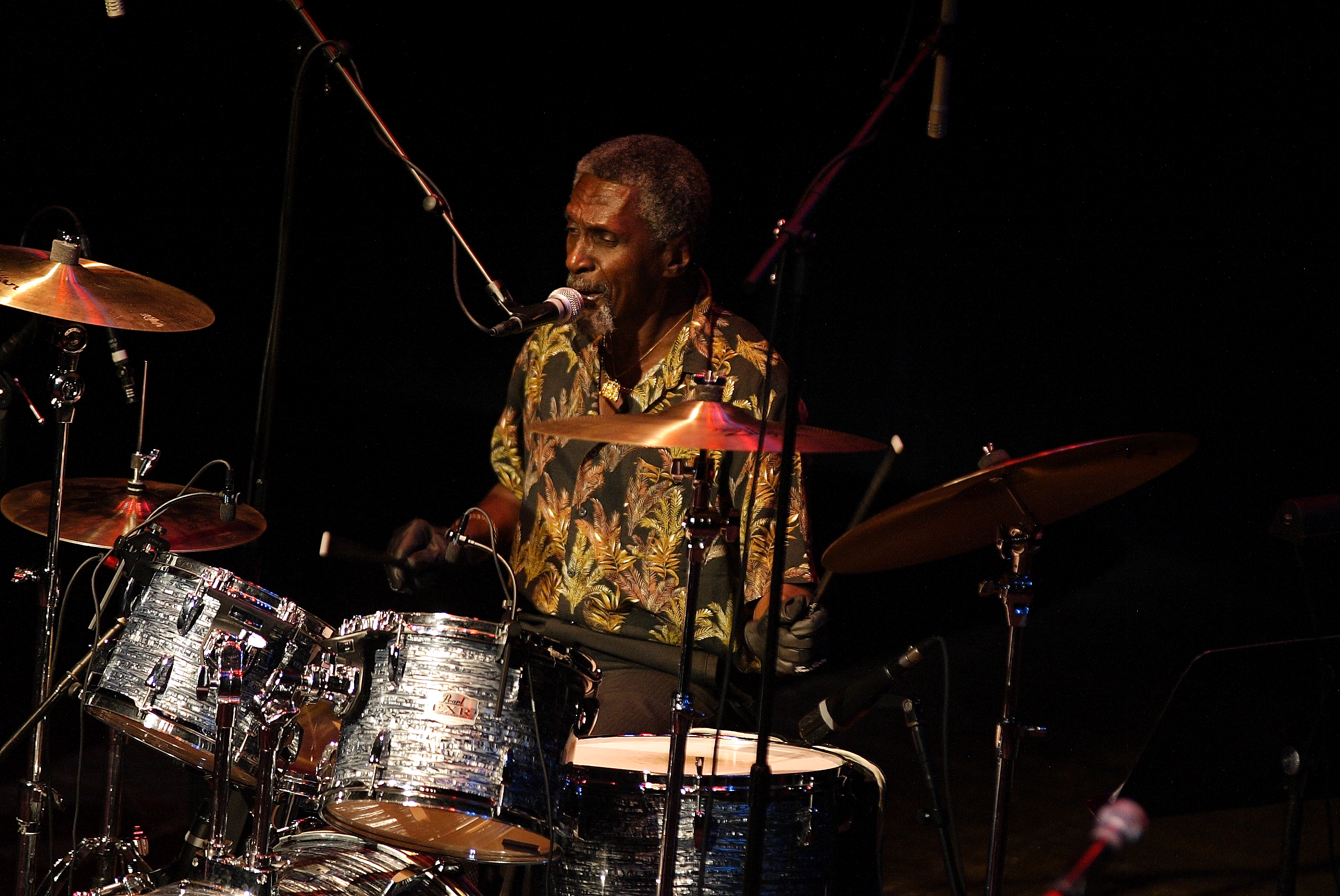 Popsy Dixon on drums - member of The Holmes Brothers who performed at The Grand, in Wilmington, Delaware with Paul Thorn and Joan Osborne.